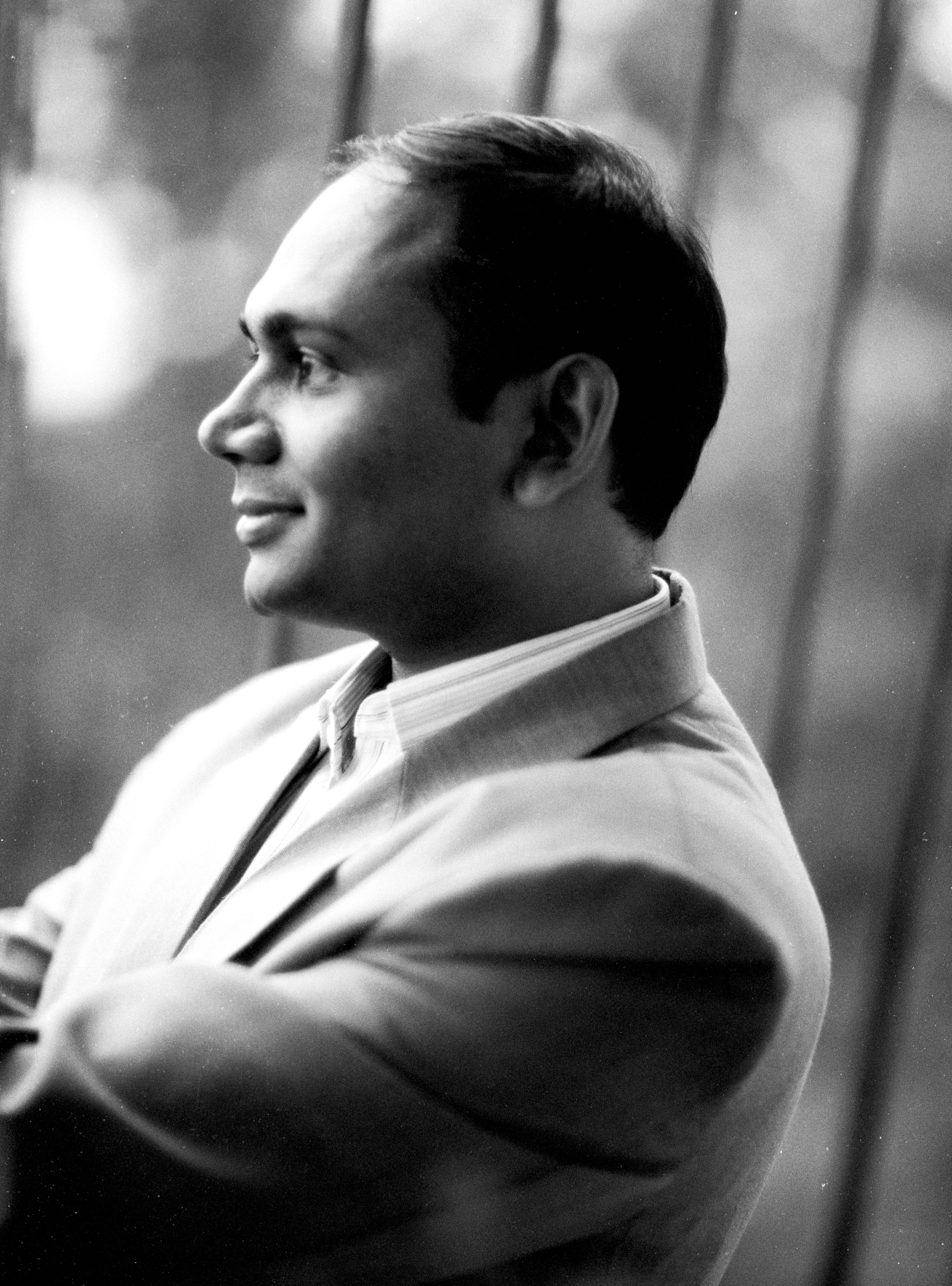 Poet-diplomat Abhay K by Alina Medvedeva